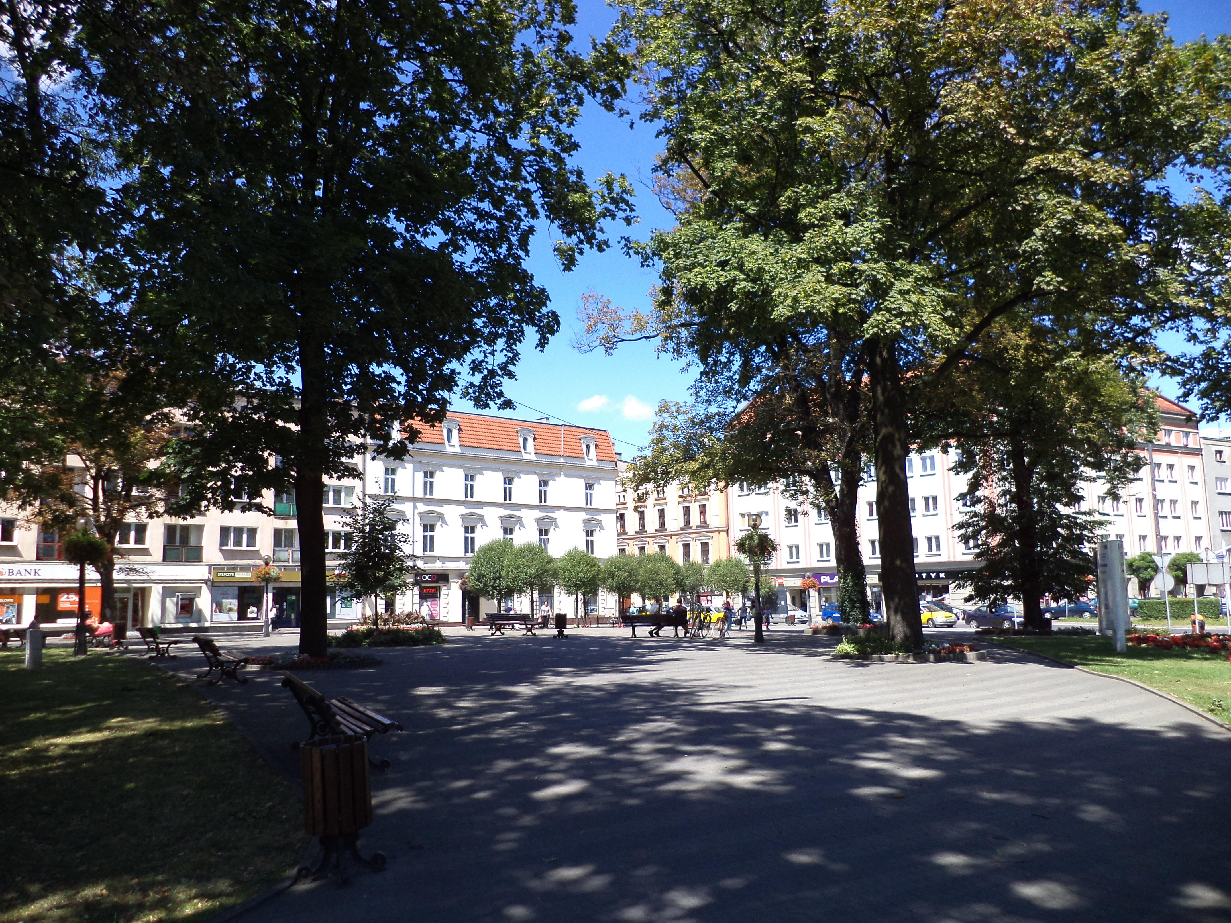 Wolności Square in Tarnowskie Góry